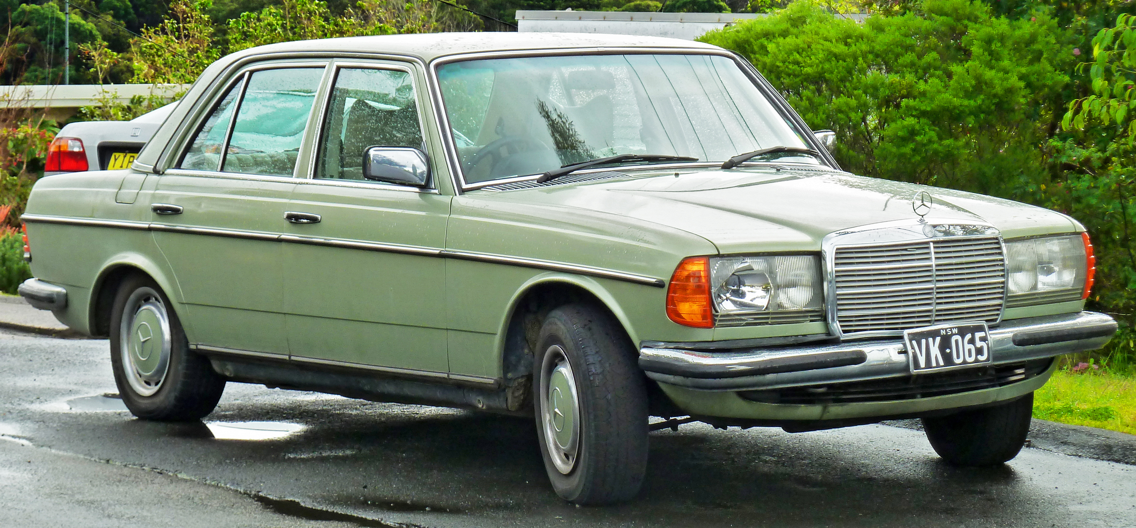 1979 Mercedes-Benz 280 E (W123) sedan. Photographed in Roseville Chase, New South Wales, Australia.